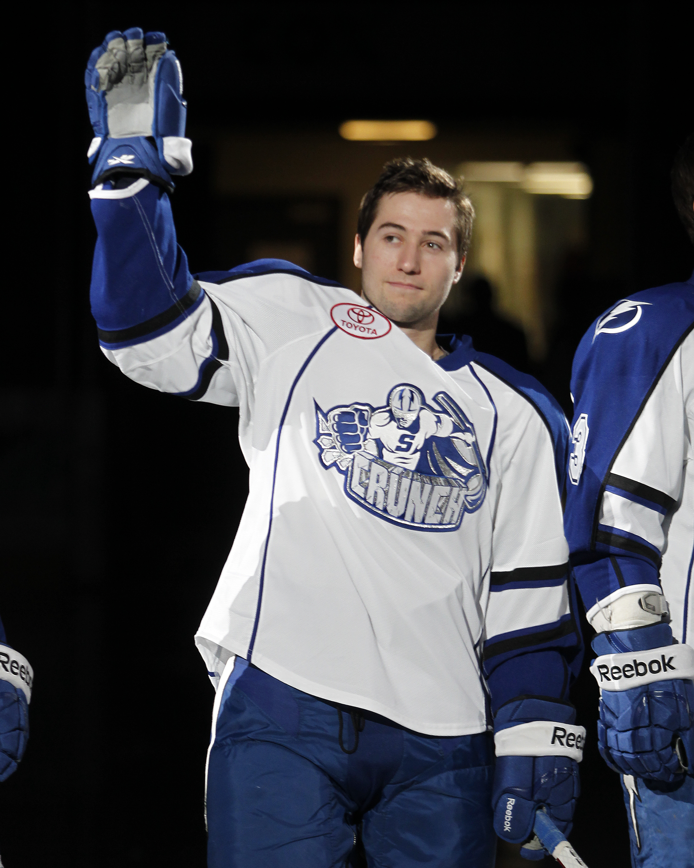 Johnson4 American Hockey League (AHL). 2013 All-Star Skills Competition. Taken on January 27, 2013.